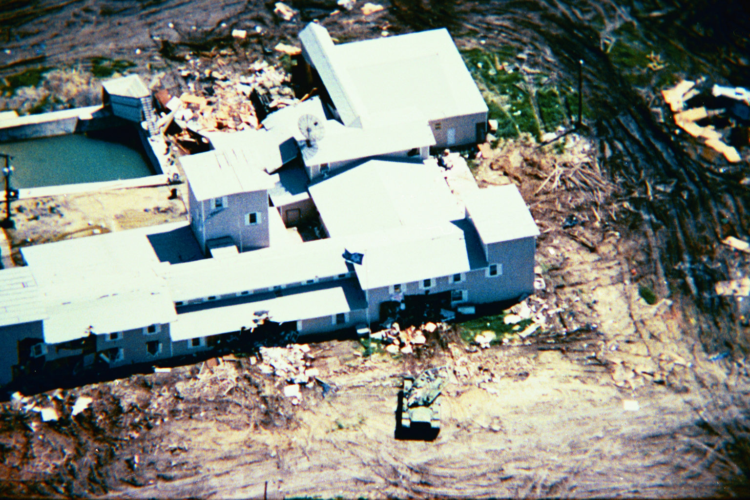 Tank has just smashed in the main entrance to Mount Carmel and damage is clearly visible.